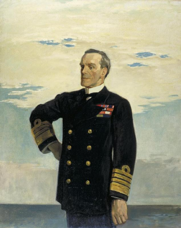 Admiral Sir F C D Sturdee, Bart, Kcb, Kcmg, Cvo, 1918 image: A three quarter-length portrait of Sturdee in uniform. He stands with his right arm on his hip, and the horizon in the background.